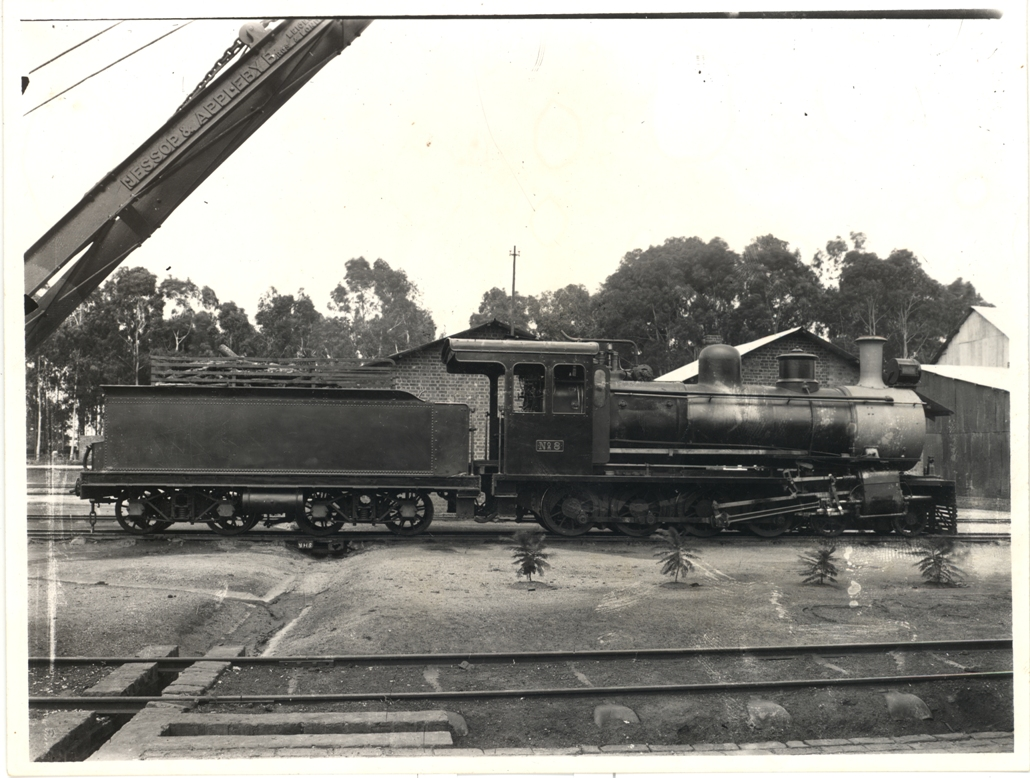 Locomotive Number 8 was withdrawn from service 9th January 1967, was towed to Lilongwe and is on display at the station there